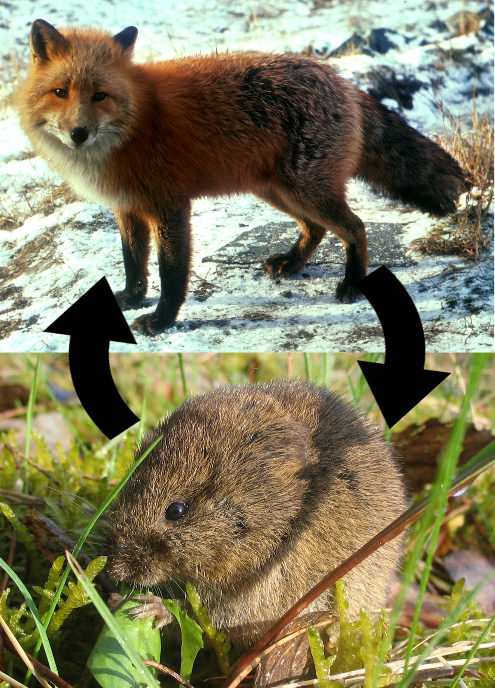 Echinococccus multilocularis life cycle: Fox (Vulpes vulpes) is typical definitive host, field vole (Microtus arvalis) is intermediate host of the tapeworm